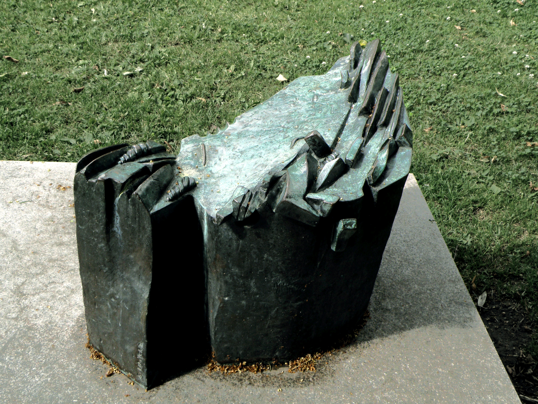 Hising Island, by Berit Lindfeldt, sculpture in bronze, 1985, Gothenburg, Sweden.